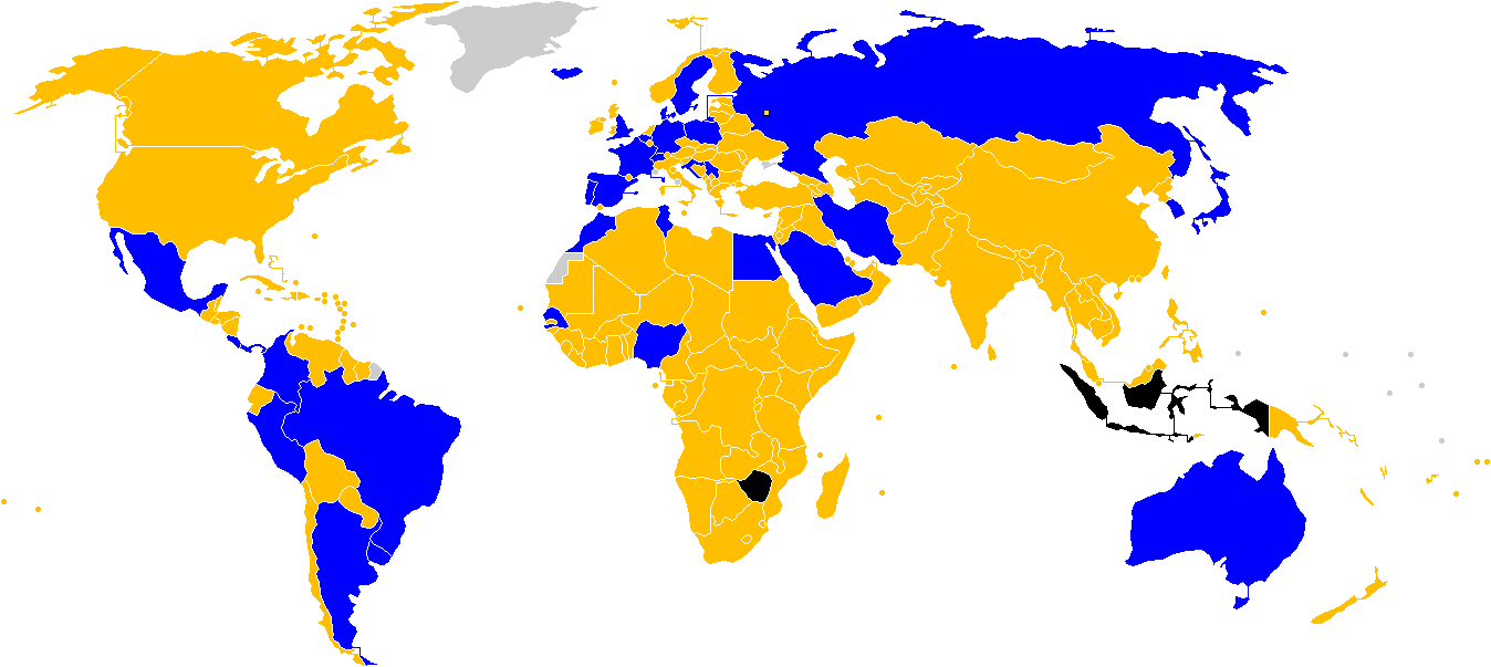 Status of countries with respect to 2018 FIFA World Cup: Teams qualified for the World Cup Teams failed to qualify Teams suspended Countries were not FIFA members